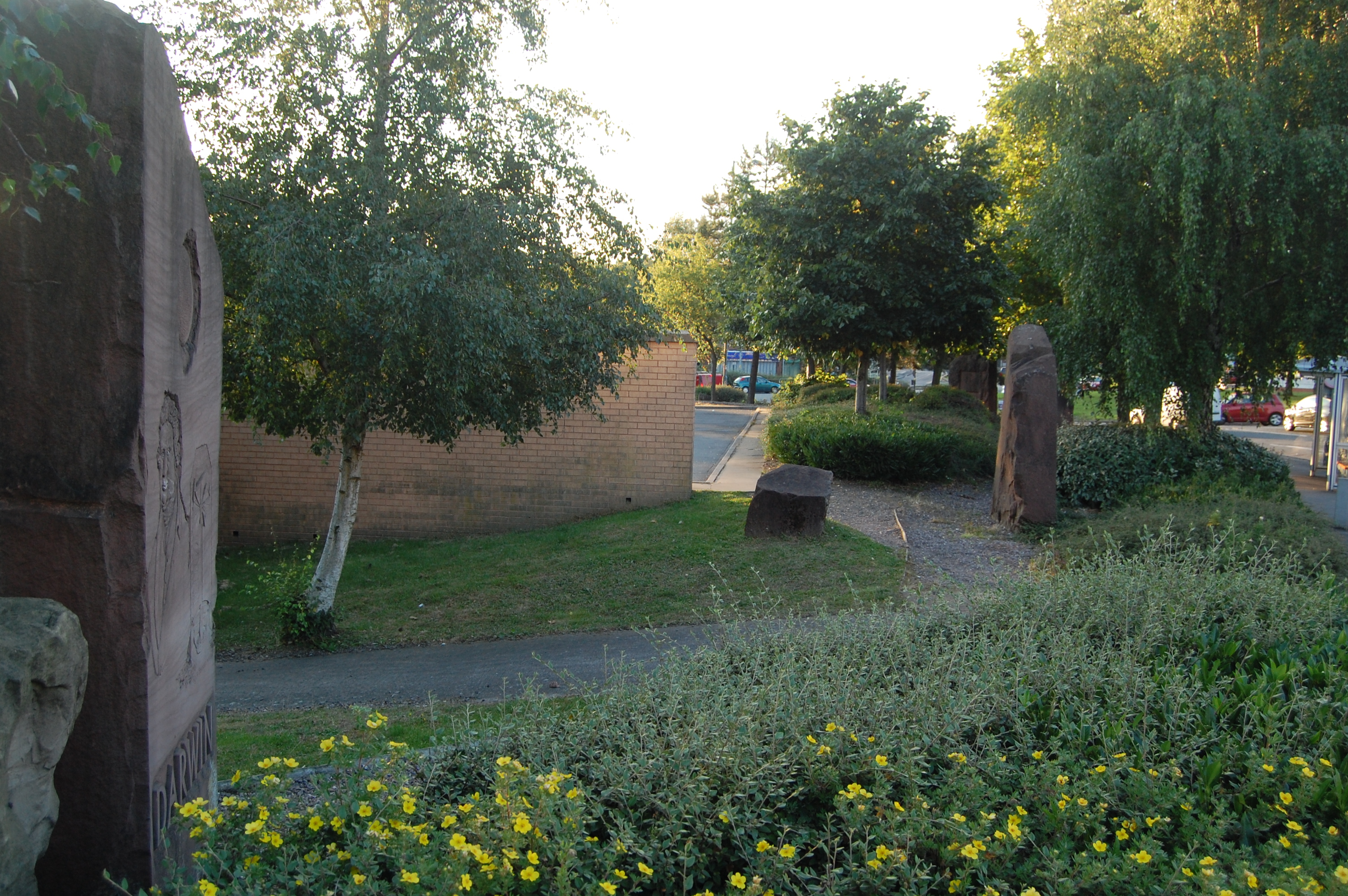 The Lunar Society Moonstones at Great Barr, Birmingham, England, commemorate members of the Lunar Society of Birmingham.